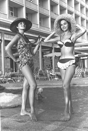 Gottex Israeli fashion house, Tel Aviv, 1961